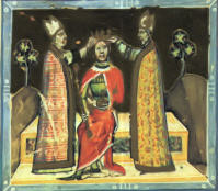 Emeric of Hungary